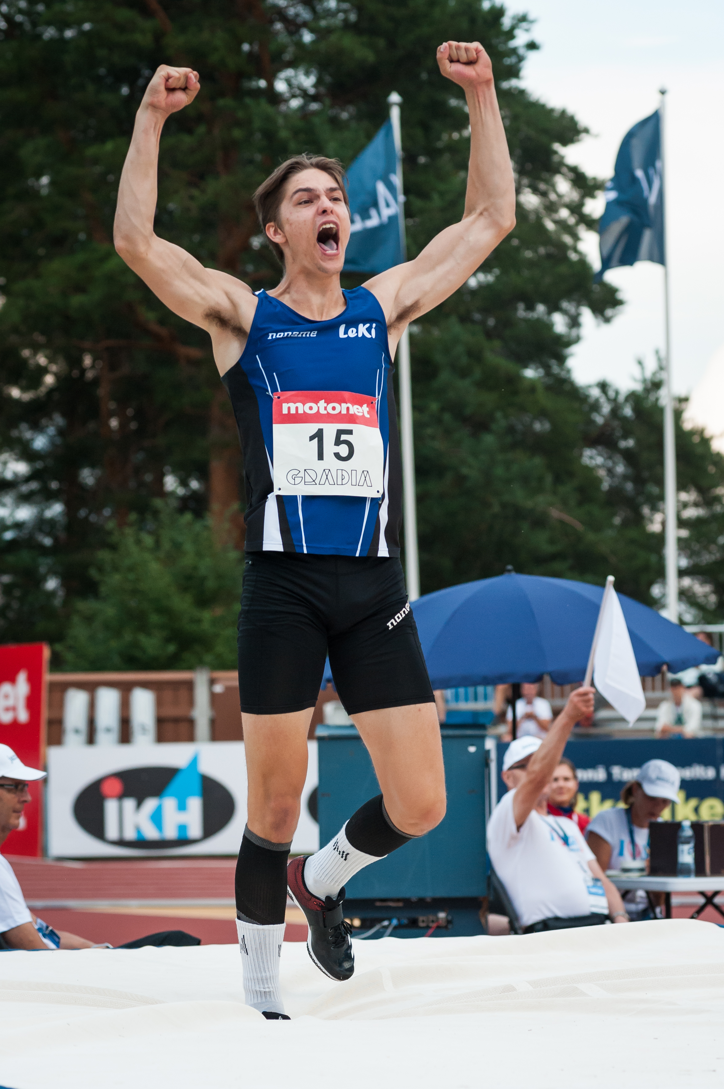 Men's high jump competition at the 2018 Kalevan Kisat, the Finnish championships in athletics, in Jyväskylä, Finland.